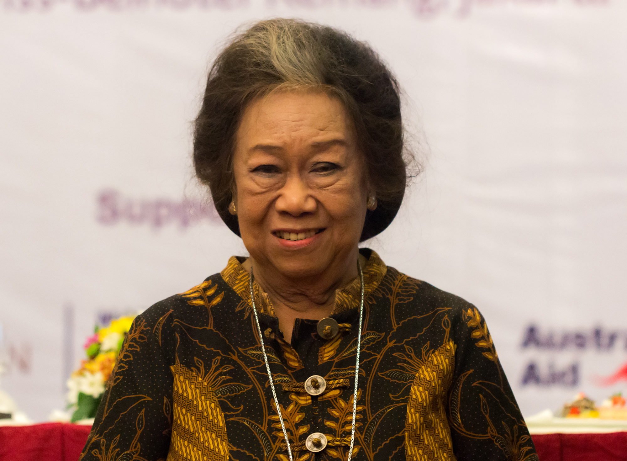 Toeti Heraty, a founder of Jurnal Perempuan and Indonesian poet, at the International Conference on Feminism on 24 September 2016. This conference was held by Jurnal Perempuan at the Swiss-Belhotel in Kemang, Jakarta, in commemoration of its twentieth year.